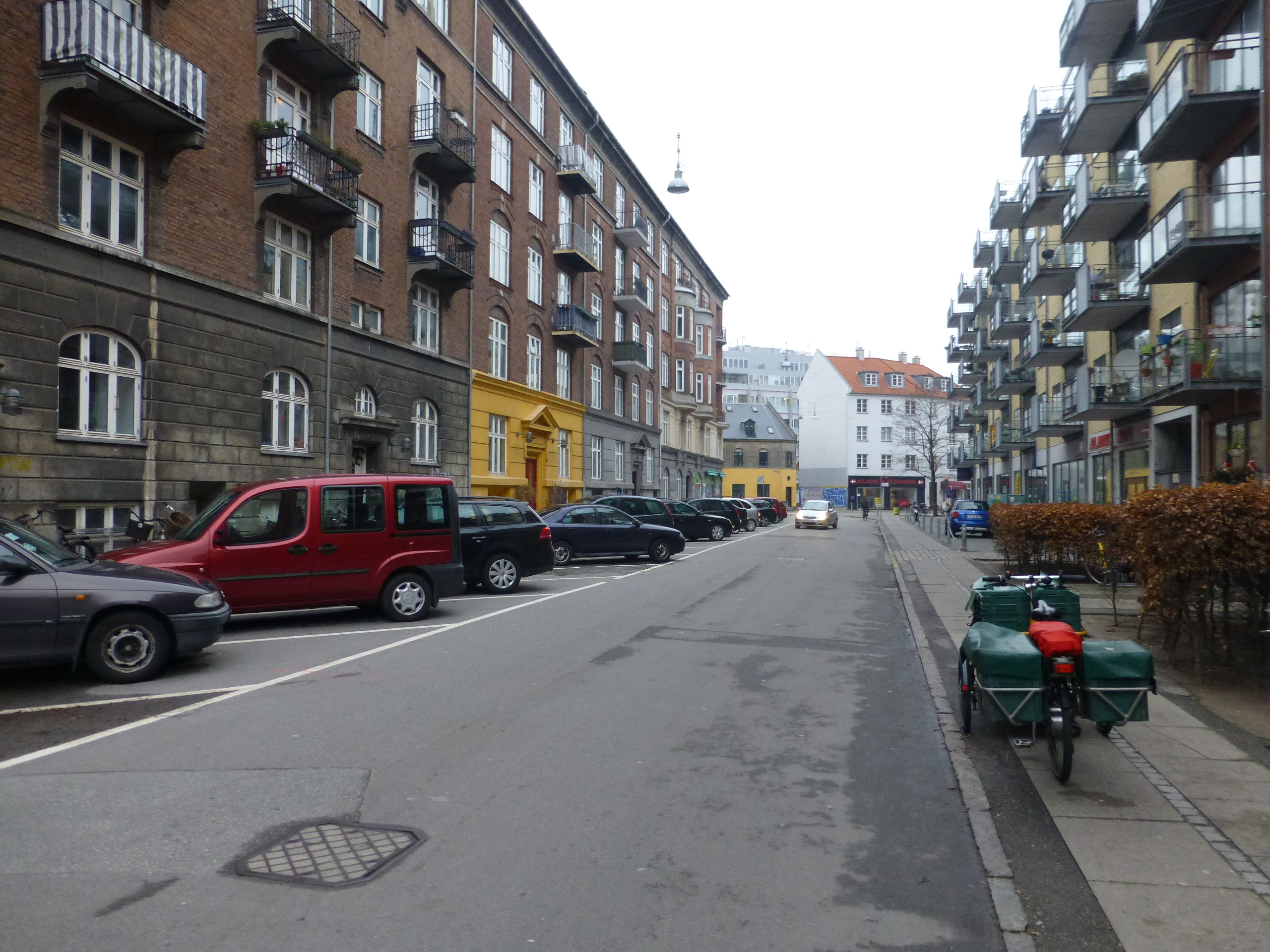 The street Trøjborggade in Vesterbro in Copenhagen.